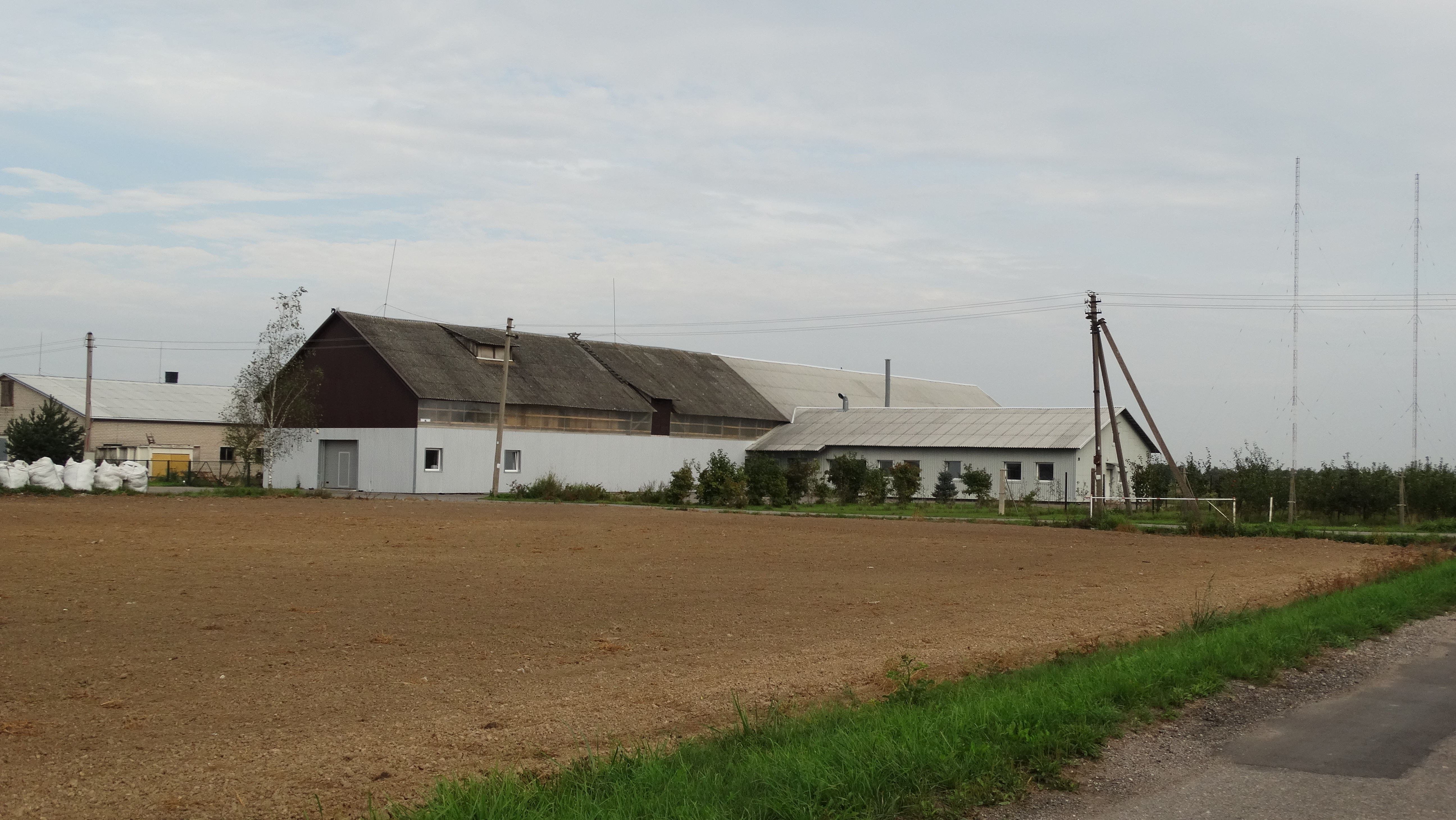 Juodoniai, Kaunas District. Lithuania